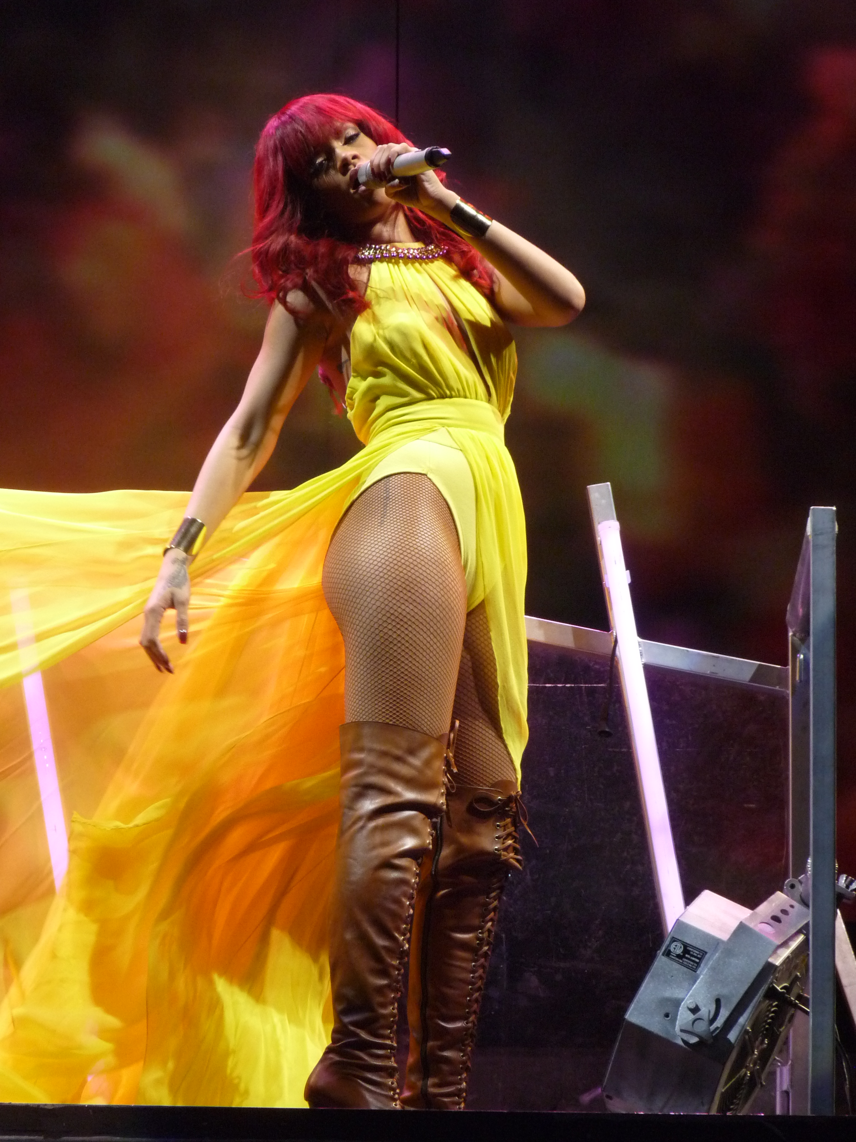 Rihanna live at Bankatlantic Center, Sunrise, Florida, on her tour The LOUD Tour. 14th July 2011